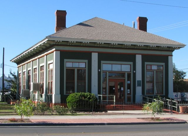 Douglas Residential Historic District, Roughly bounded by 12th St., Carmelita Ave., 7th St., and East Ave. Douglas